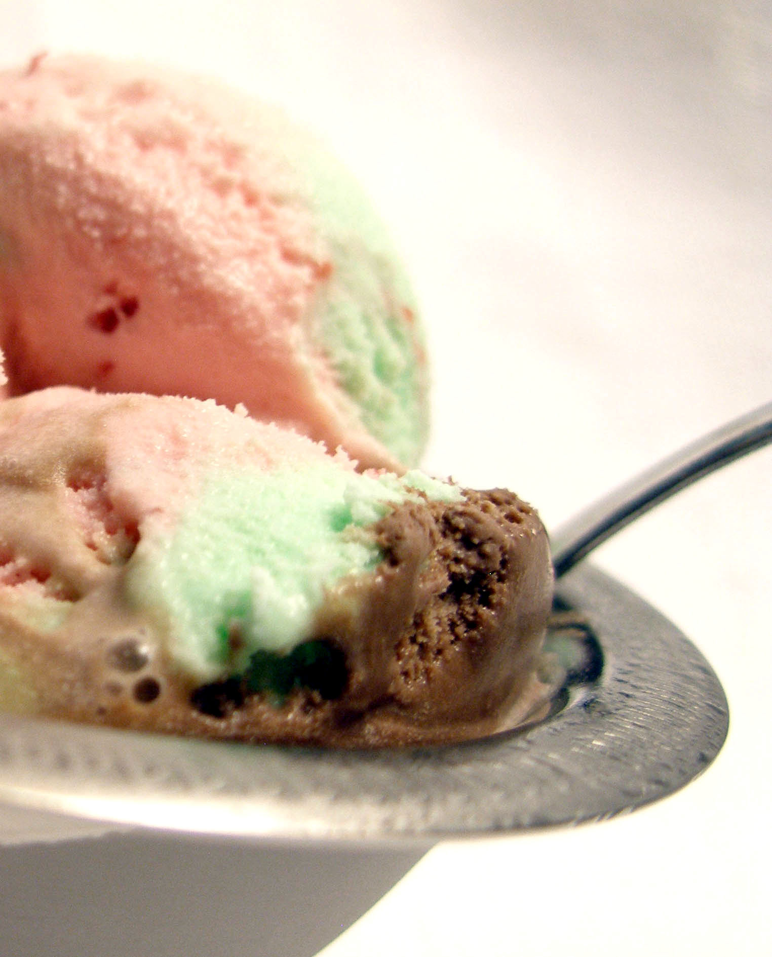 This is a picture of spumoni ice cream that contains chocolate, rum, and pistachio flavours.